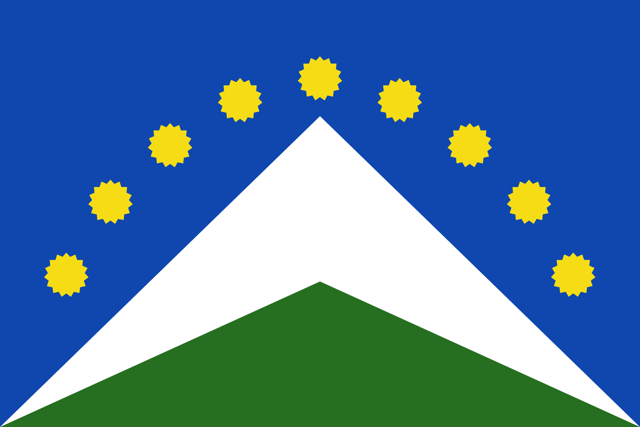 Junin region